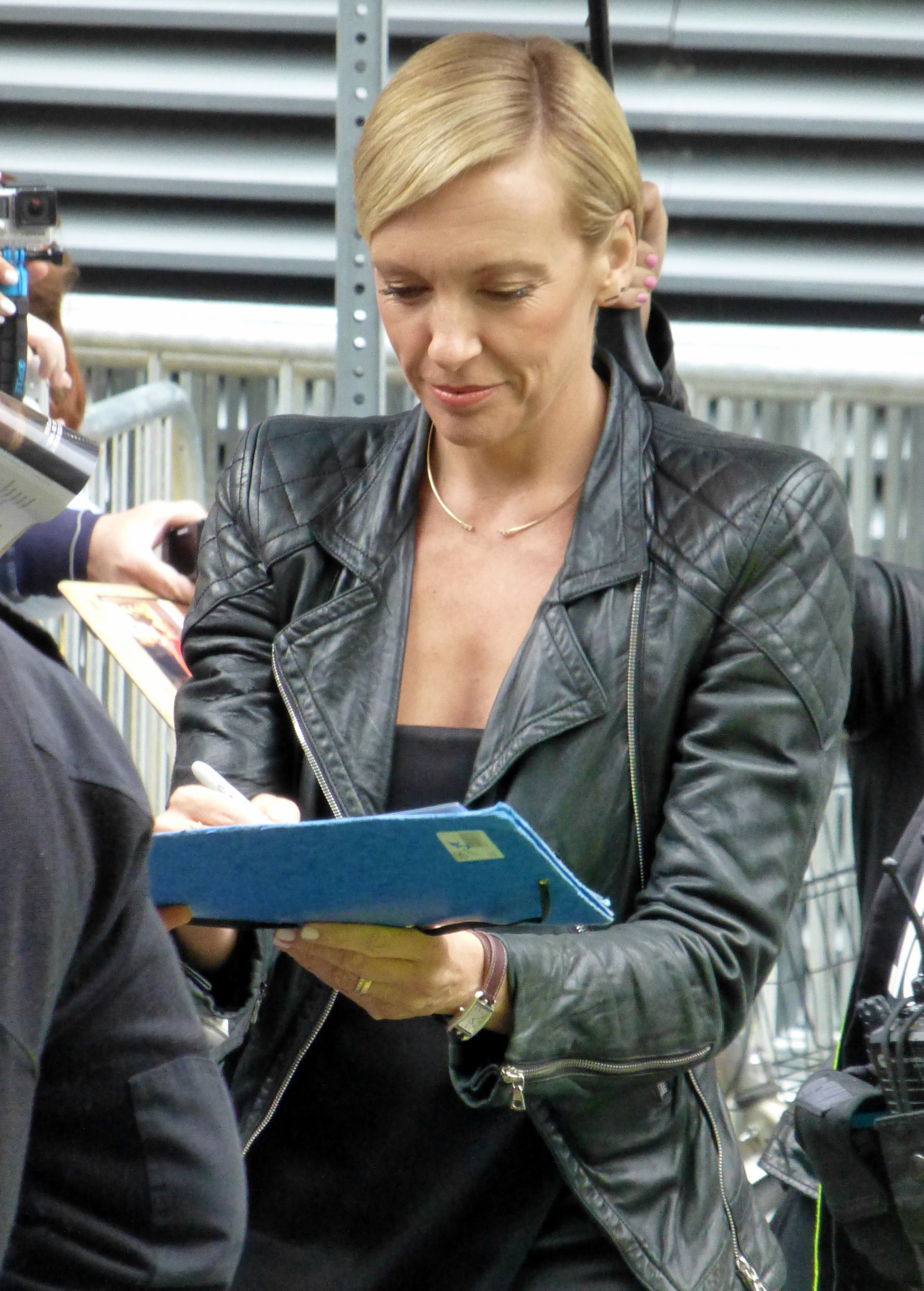 Toni Collette at the press conference of Miss You Already, 2015 Toronto Film Festival